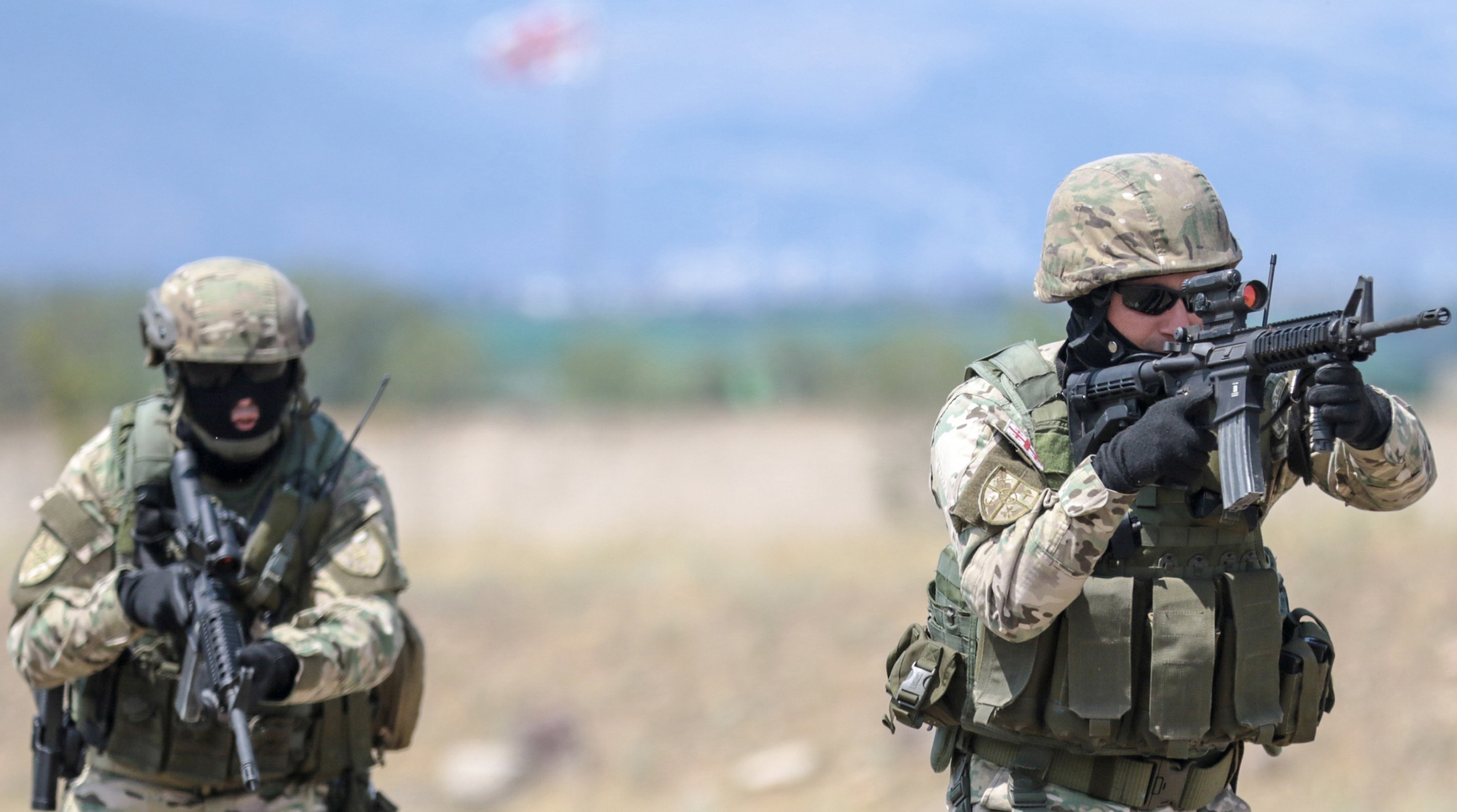 Georgian Armed Forces special forces move towards the objective after aerial insertion during an urban operations exercise at the Vaziani Training Area on Aug. 5, 2018 during Noble Partner 18. Georgia is hosting the multinational U.S. Army Europe exercise to promote stability in the region and support strengthening their defense and internal operations